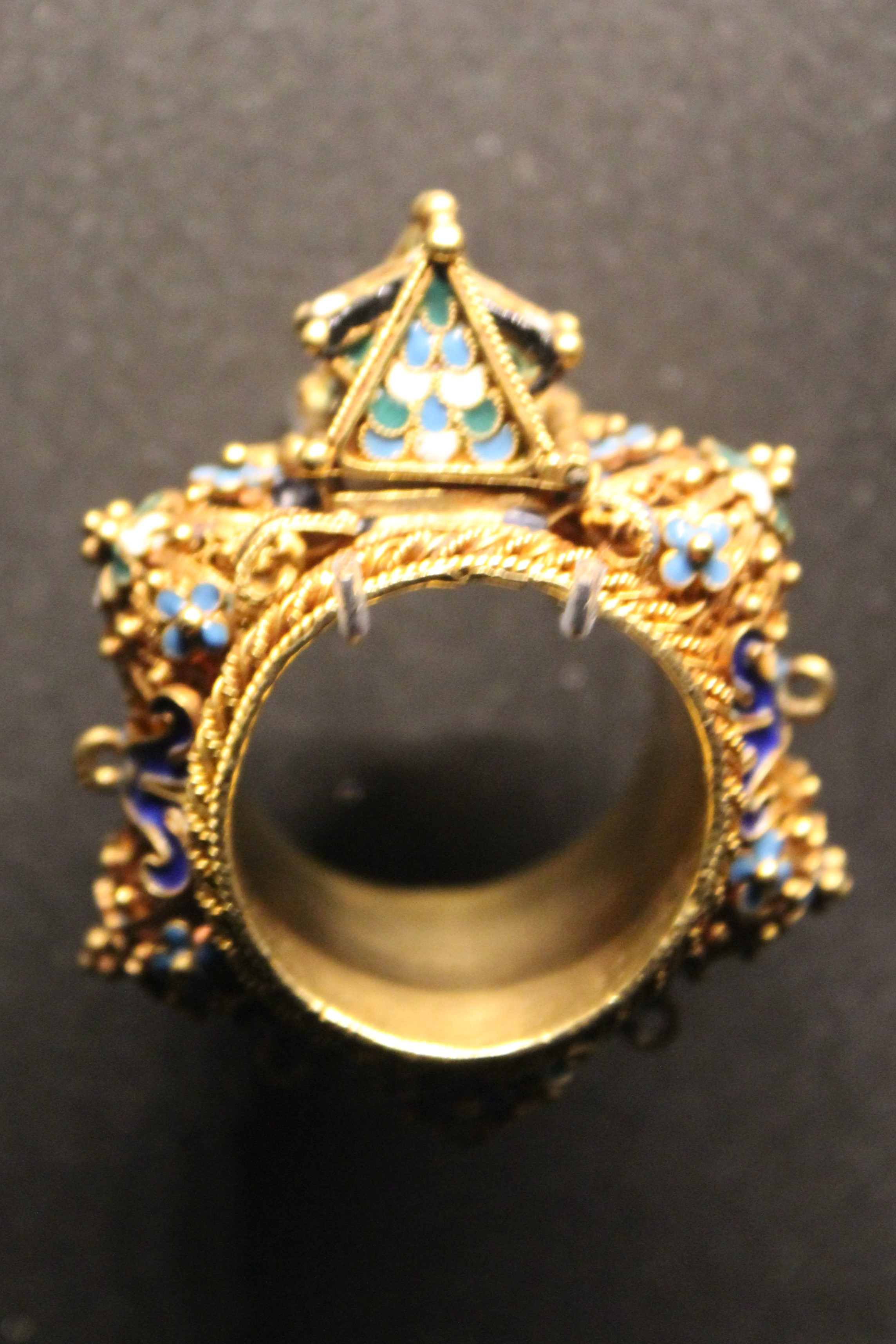 Jewish marriage ring, Waddesdon bequest